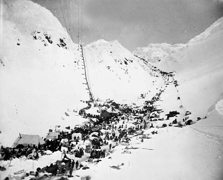 The Chilkoot Pass during the height of the Klondike Gold Rush, 1898. Scales (in front) and Chilkoot Pass (behind). Left pass: Golden Stairs, Right pass: Pederson Pass. (The image is digitally altered to remove caption at lower right and an overexposure at the top.) Original